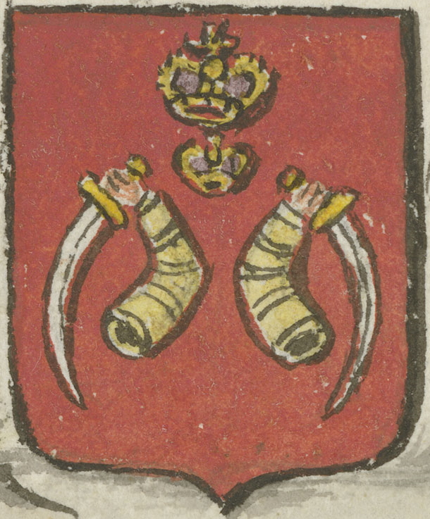 Source: The map of Vyborg Covernorate, Atlas vyiborgskoi gubernii 1797.